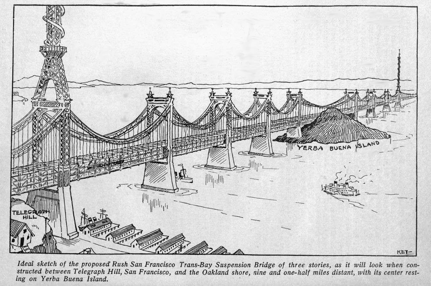 Sketch Drawing of Proposed San Francisco-Oakland Bay Bridge (1913) from Overland Monthly, April 1913